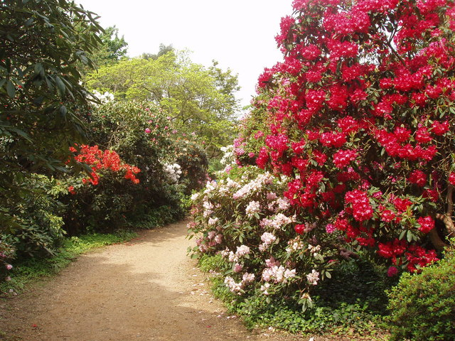 Rhododendron dell in Cannizaro Park Cannizaro Park is a listed garden. Many of the rhododendrons were planted by Kenneth Wilson from 1920 to 1947. He was a director of Ellerman and Wilson shipping line - see Friends of Cannizaro Park website .